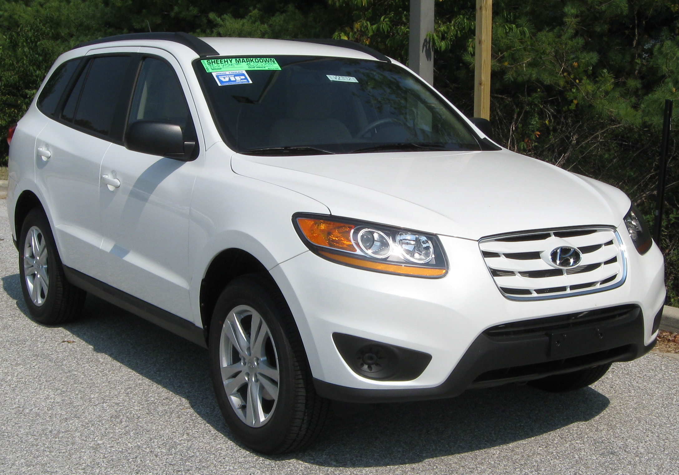 2010 Hyundai Santa Fe photographed in Waldorf, Maryland, USA.